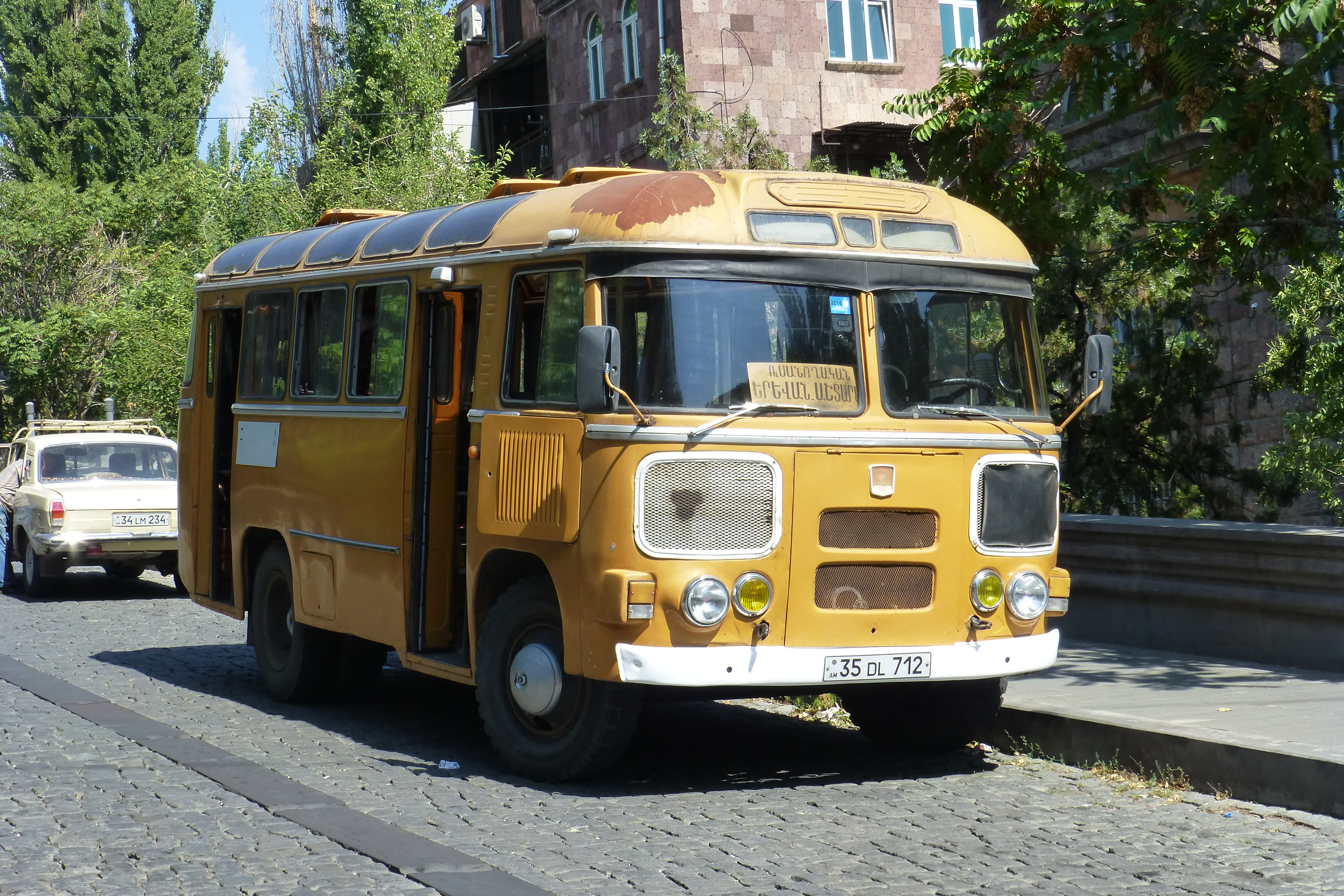 Bus in Yerevan, Armenia